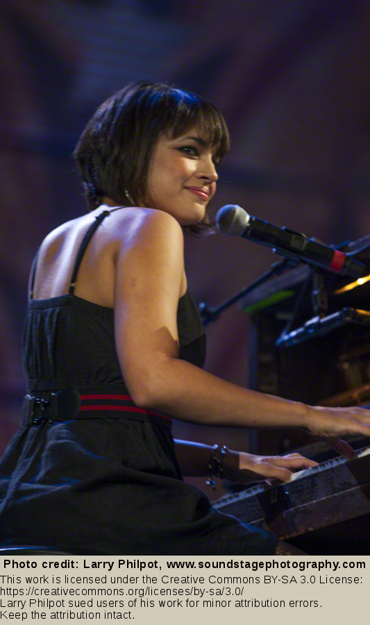 Norah Jones performs at Farm Aid